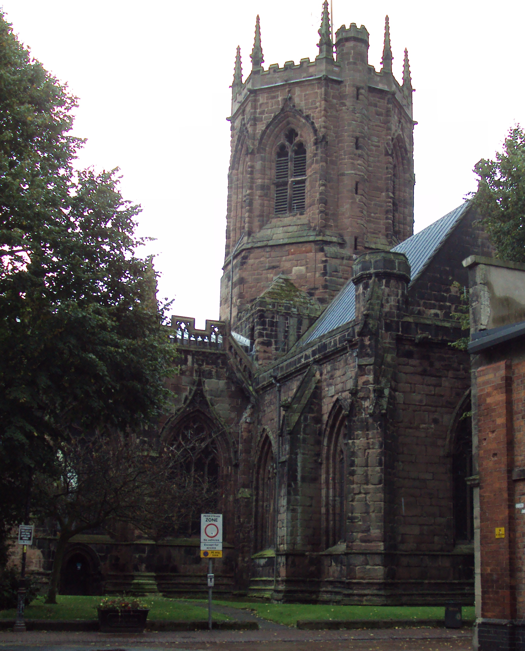 St Mary's Church, Nantwich, Cheshire, England.